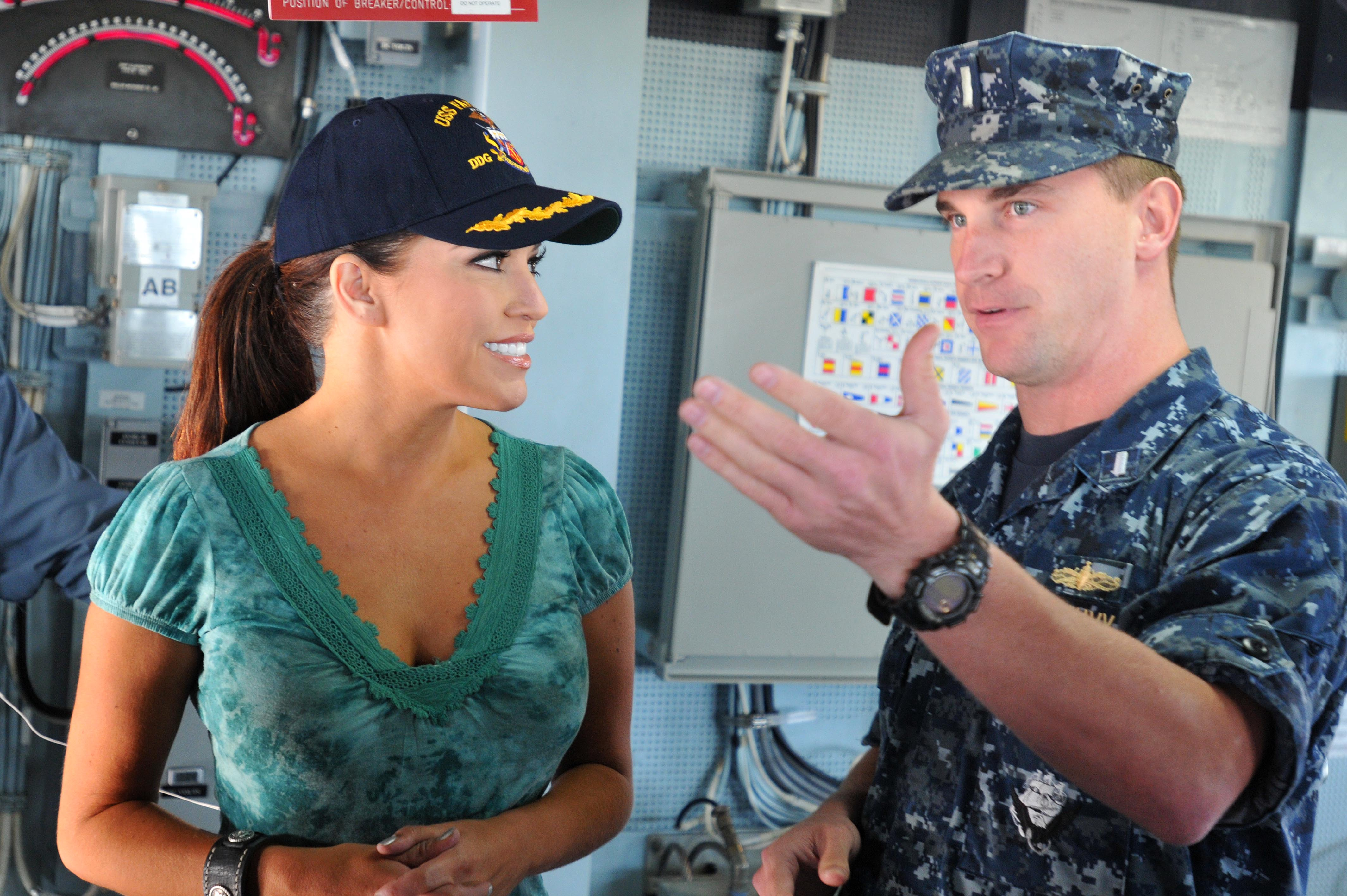 MAYPORT, Fla. (Oct. 7, 2011) Lt. j.g. Rick Engel explains to Headline News morning anchor Robin Meade various operations that take place in the pilot house aboard the guided-missile destroyer USS Farragut (DDG 99). Meade visited Naval Station Mayport to film for her Salute the Troops episode. (U.S. Navy photo by Mass Communication Specialist 2nd Class Jacob Sippel/Released)